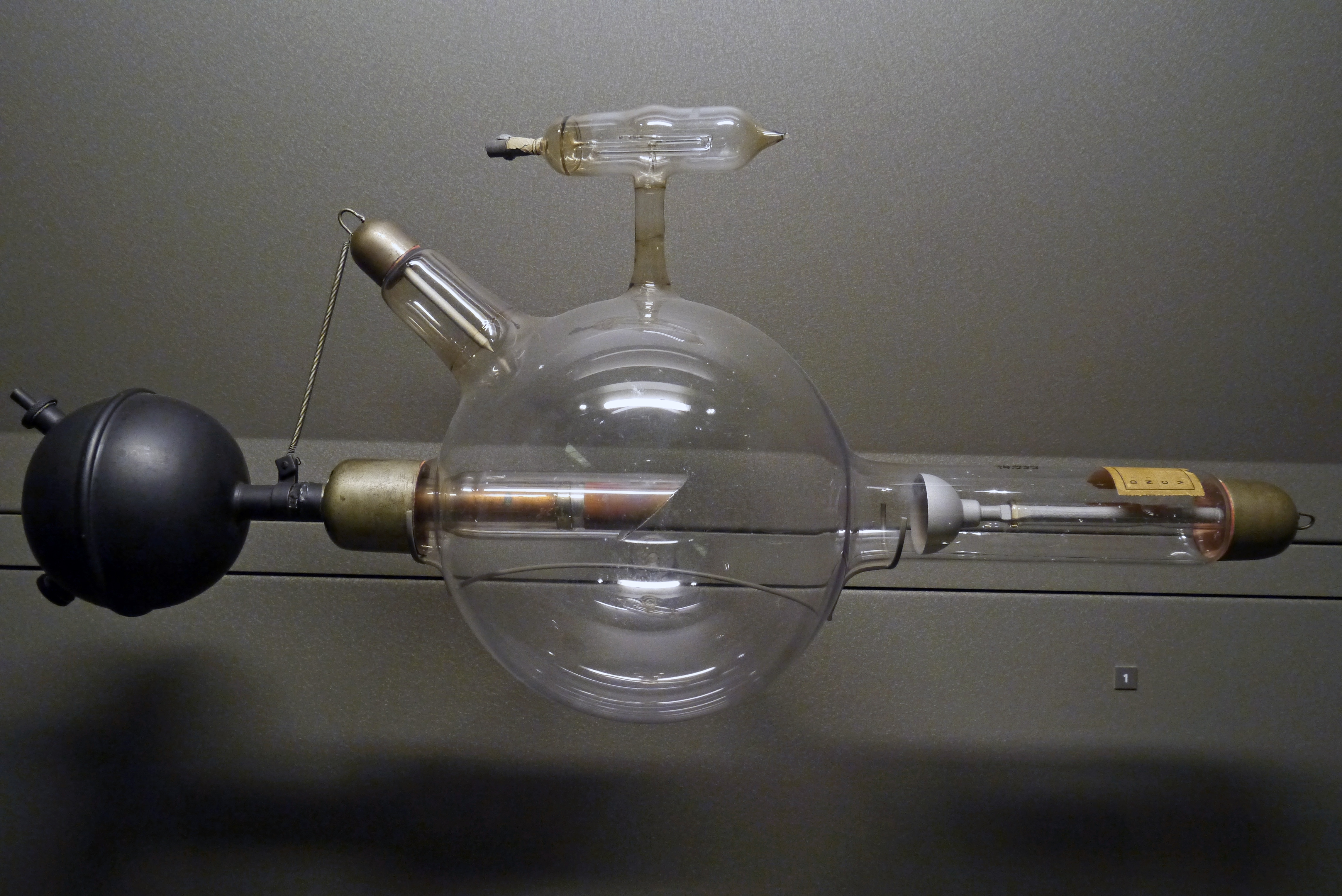 X-ray tube, early 20th century.